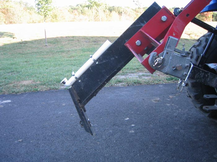 A modular Subsoiler mounted to a New Holland Compact Utility Tractor. The plastic pipe added to the rear of the subsoiler is a user made modification that allows the subsoiler to be used to bury wire or flexible hose underground.